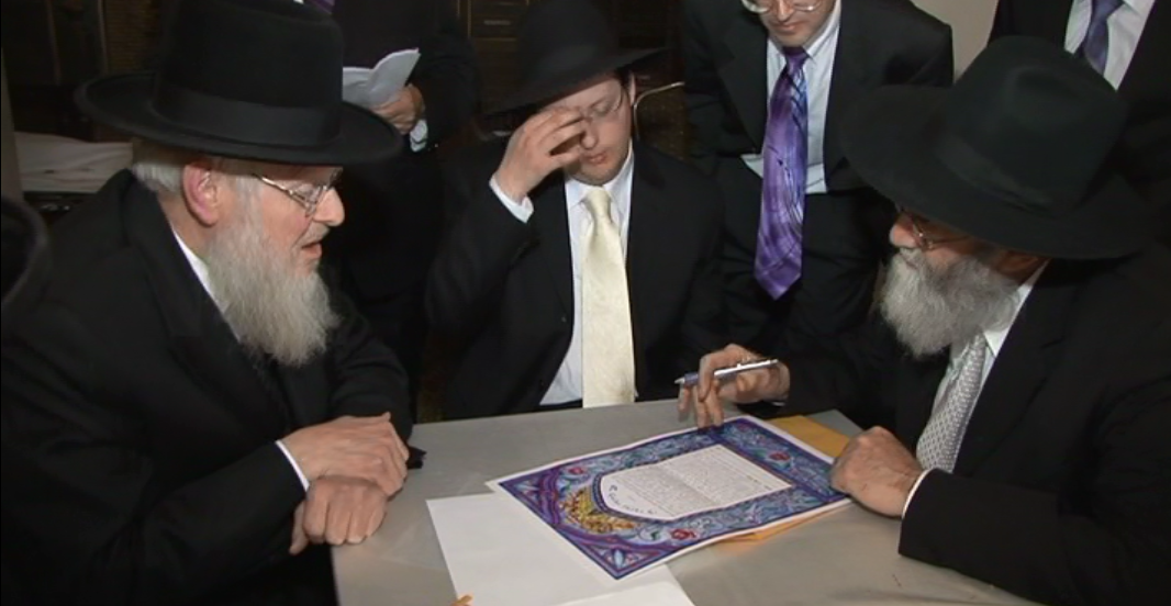 This picture was taken at Neman Hall on January 20, 2011 at the wedding of Reuven Chaim Klein and Shira Yael Deifik. From left to right it shows Rabbi Eliezer Gross (Rosh Yeshiva of Yeshiva Gedolah of Los Angeles), Rabbi Reuven Chaim Klein (the groom), and Rabbi Dovid Grossman.